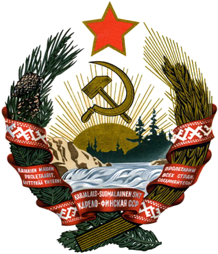 Coat of arms of the Karelo-Finnish SSR (1940-1956)